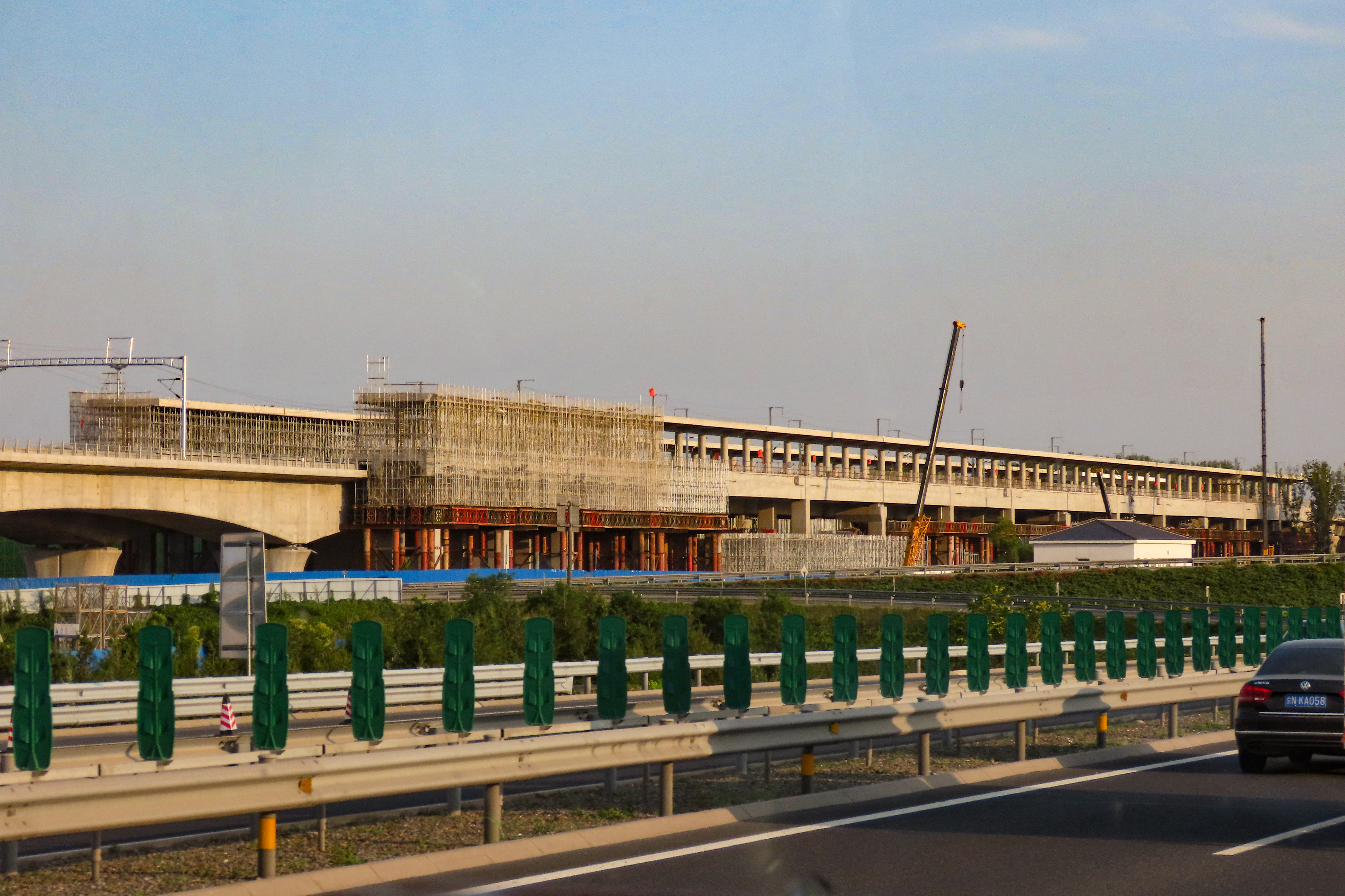 Taken from an inbound 866.